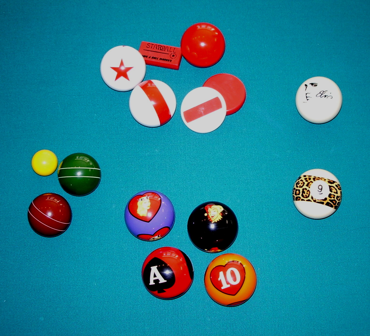 Various novelty pocket billiards balls. Clockwise from the top: Red and white balls and markers from a novelty game called Starball; an Elvis Presley commemorative cue ball from Graceland; a leopard-patterned 9 ball; colorful balls from a poker-themed set; regular balls and the small "jack" from a miniature bocce set used on a table instead of a lawn or court.